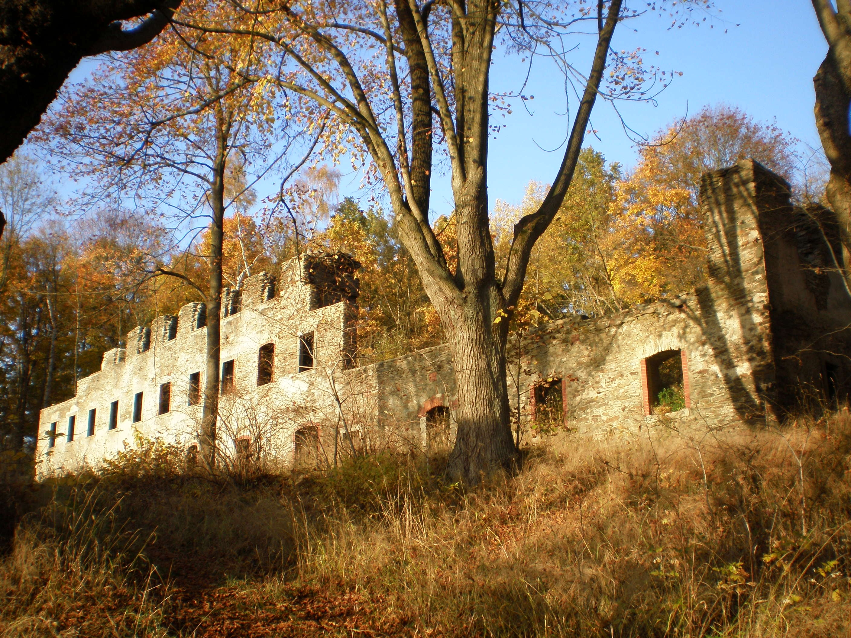 Castle ruins in Podhradí (Aš), Czech Republic